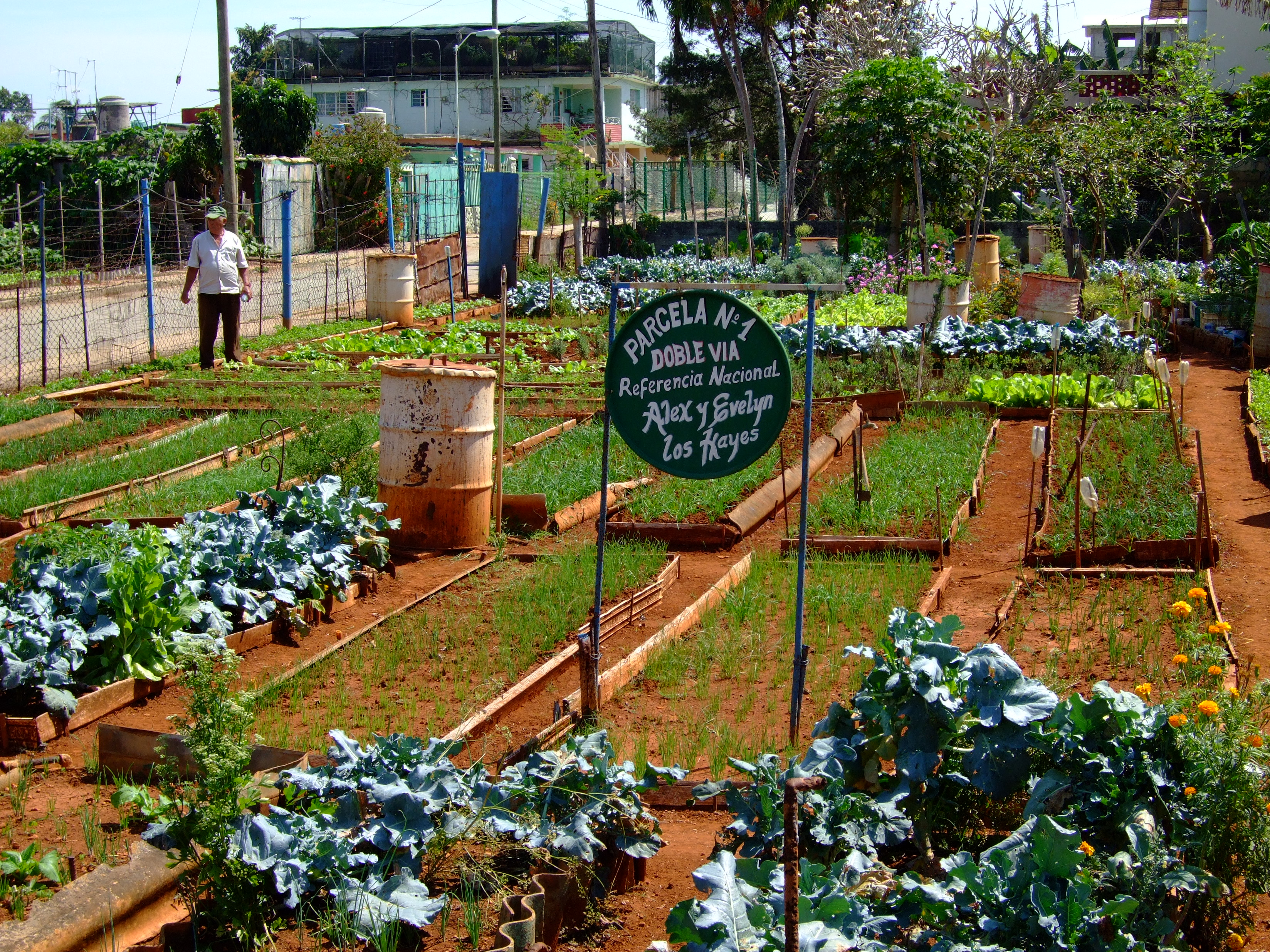 An urban agriculture business in a suburb of Havana.